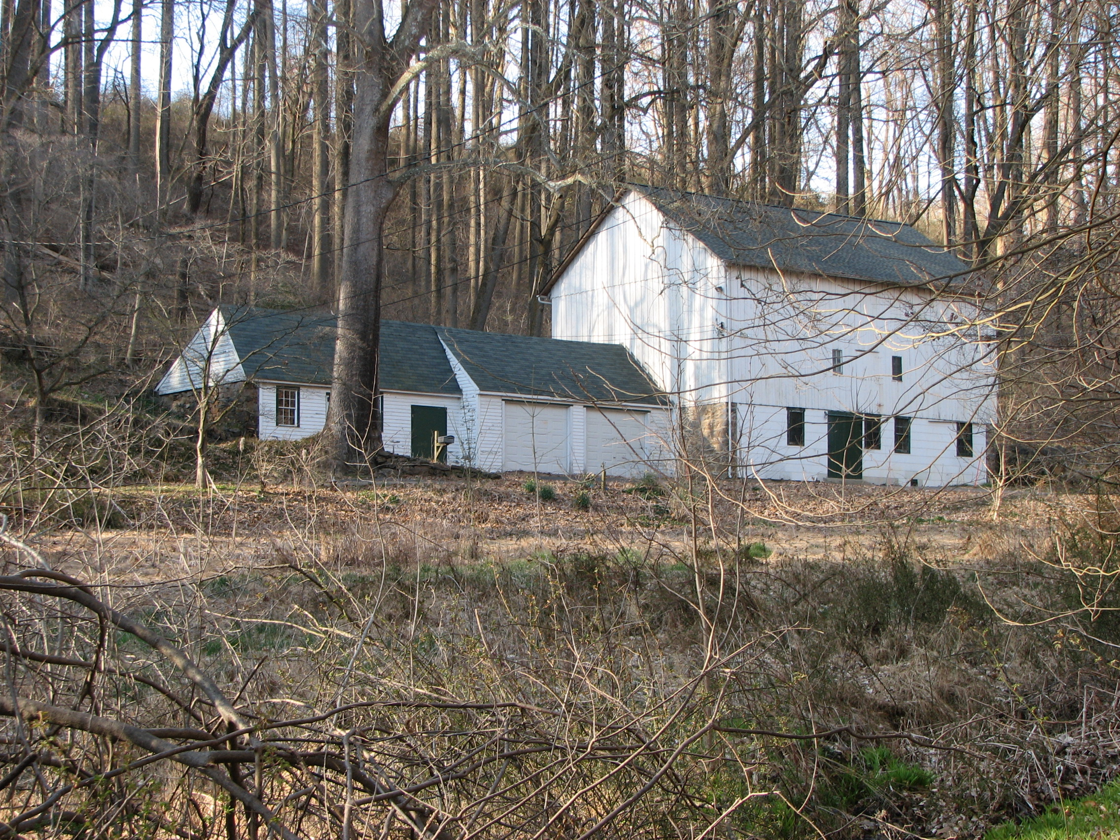 Barn at the John Carney Agricultural Complex, off Thompsons Bridge Road near the Brandywine Creek. The building is listed on the National Register of Historic Places.